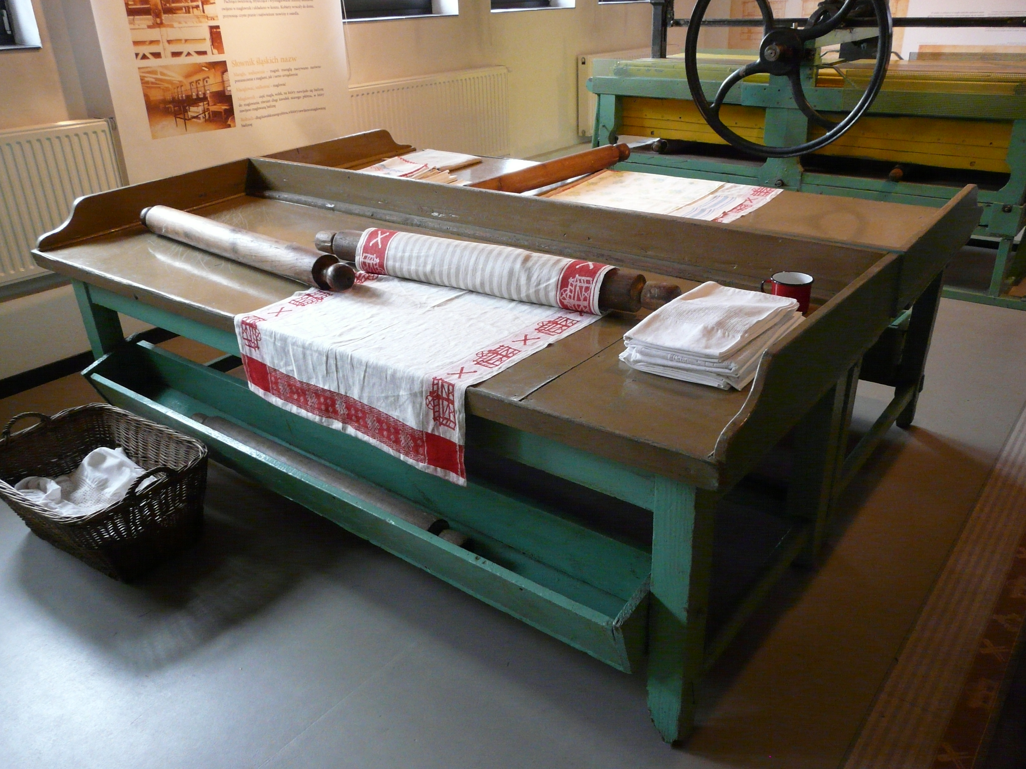 Katowice, Nikiszowiec. Muzeum Historii Katowic. From the collections: "U nos w doma na Nikiszu" (depictions of average households, pics 18-49) and "Woda i mydło najlepsze bielidło" (depictions of communal laundry, pics 5-17).